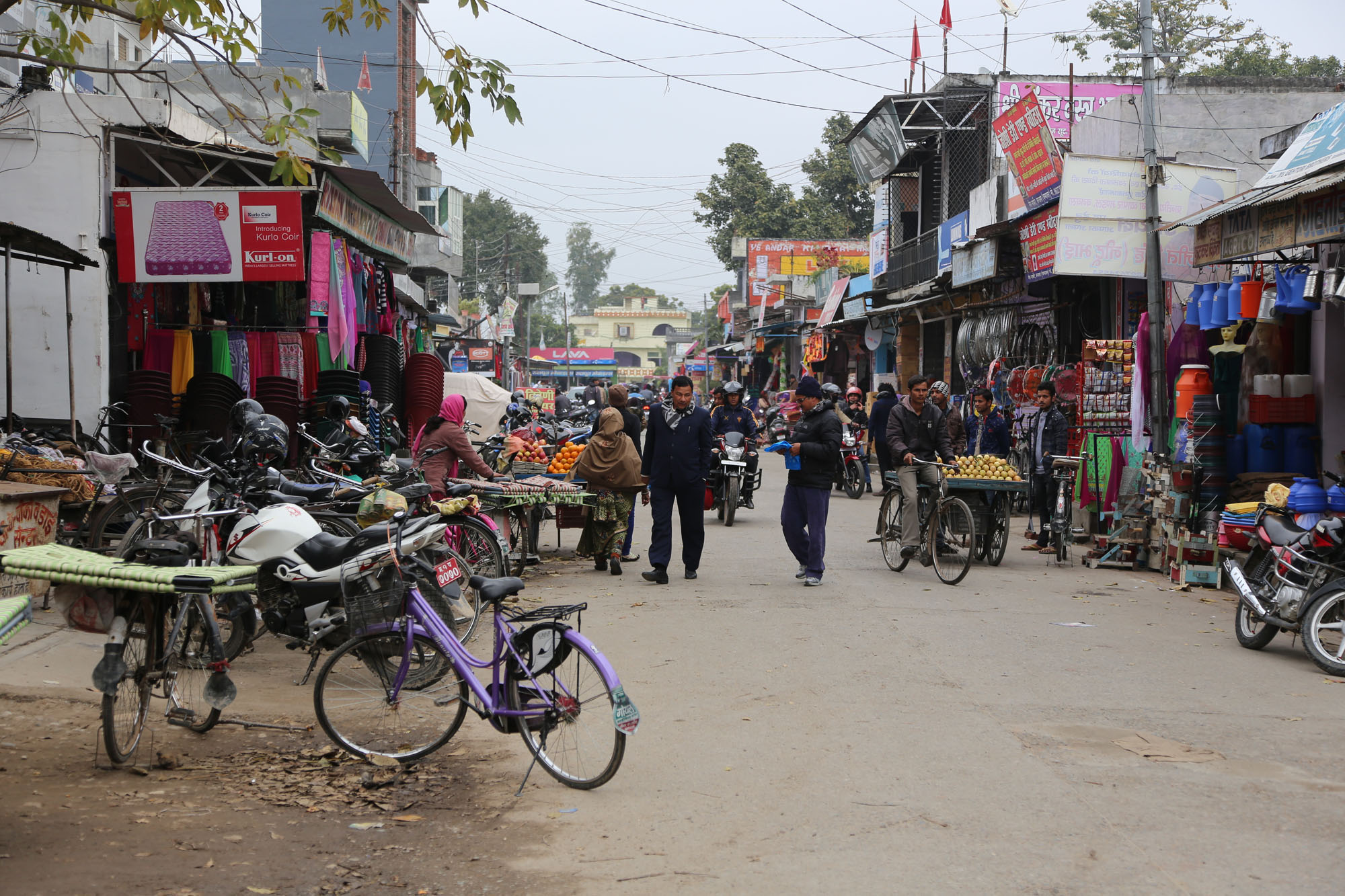 Street view of Banbasa, Dist. Champawat, Uttarakhand, India